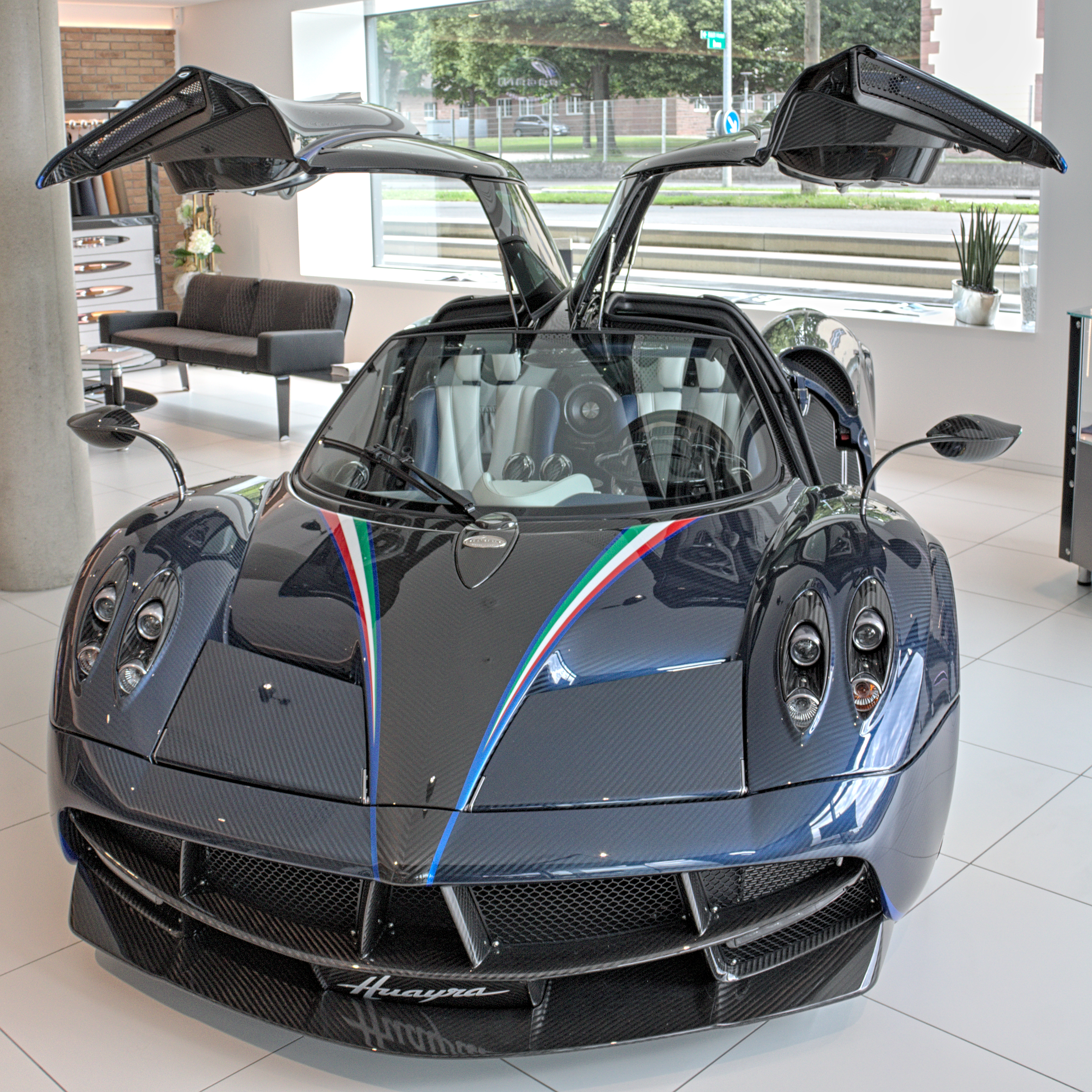 Pagani_Huayra in Böblingen